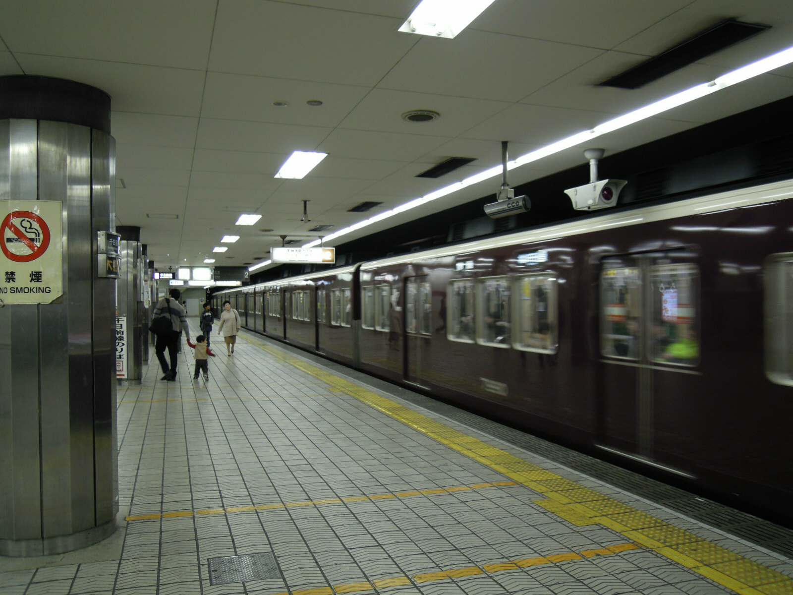 Nipponbashi station platform